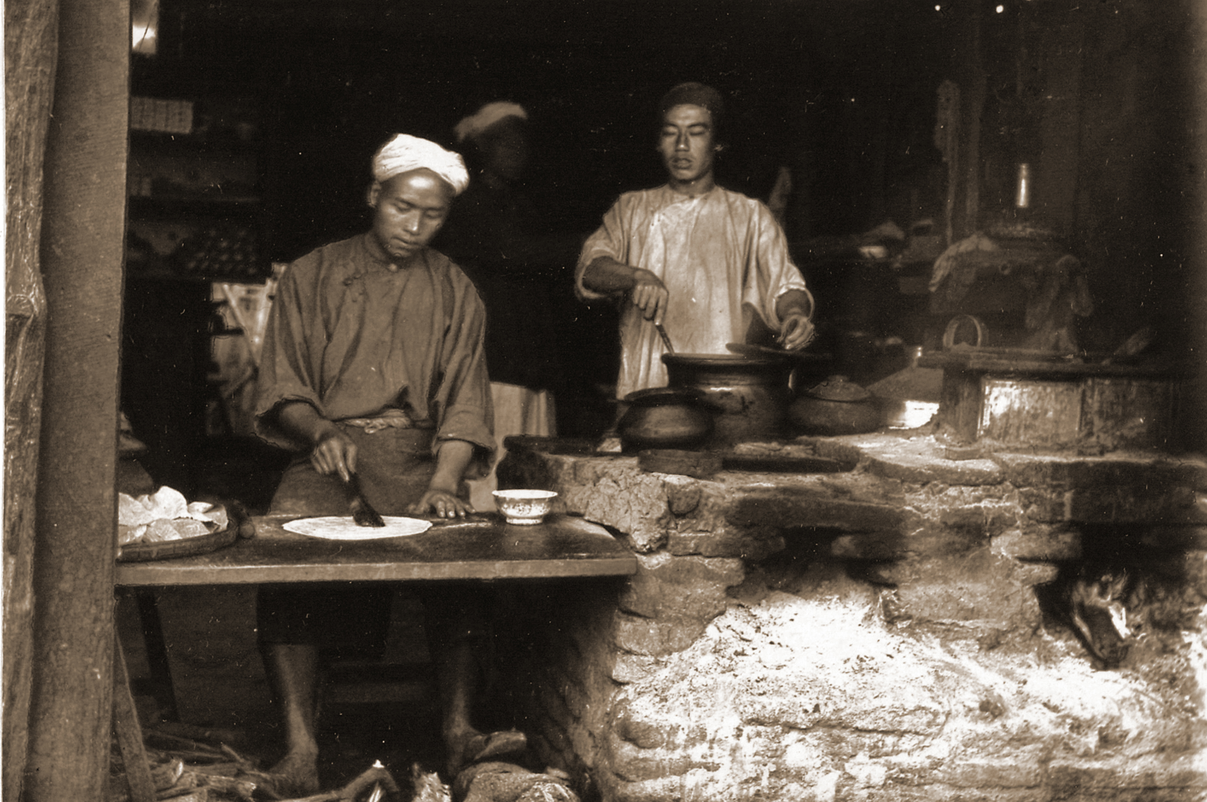 Photograph of a baker’s shop in the Chinese quarter of Mandalay in Burma (Myanmar), taken by Willoughby Wallace Hooper in 1886. The war culminated in the annexation of Upper Burma by the British on 1 January 1886. Chinese communities had existed for many centuries in rural Burma and were largely formed by migrants travelling overland from China into Burma along the north-eastern trade routes. The urban Chinese population originated during the colonial era when Chinese from the coastal provinces of China came by sea to work as merchants, among other professions. The Chinese quarter in Mandalay was near the King’s Bazaar, on the south side of B Road. A caption by Hooper accompanying the photograph describes the shop: “It is not perhaps a very inviting looking place, nevertheless the bread made in Mandalay is exceedingly good. Bread is much eaten by the Burmese, besides various kinds of cakes and chupatties, a sort of pancake or girdlecake: the man on the left is making one of these while the other man is tending the pot over the furnace.”